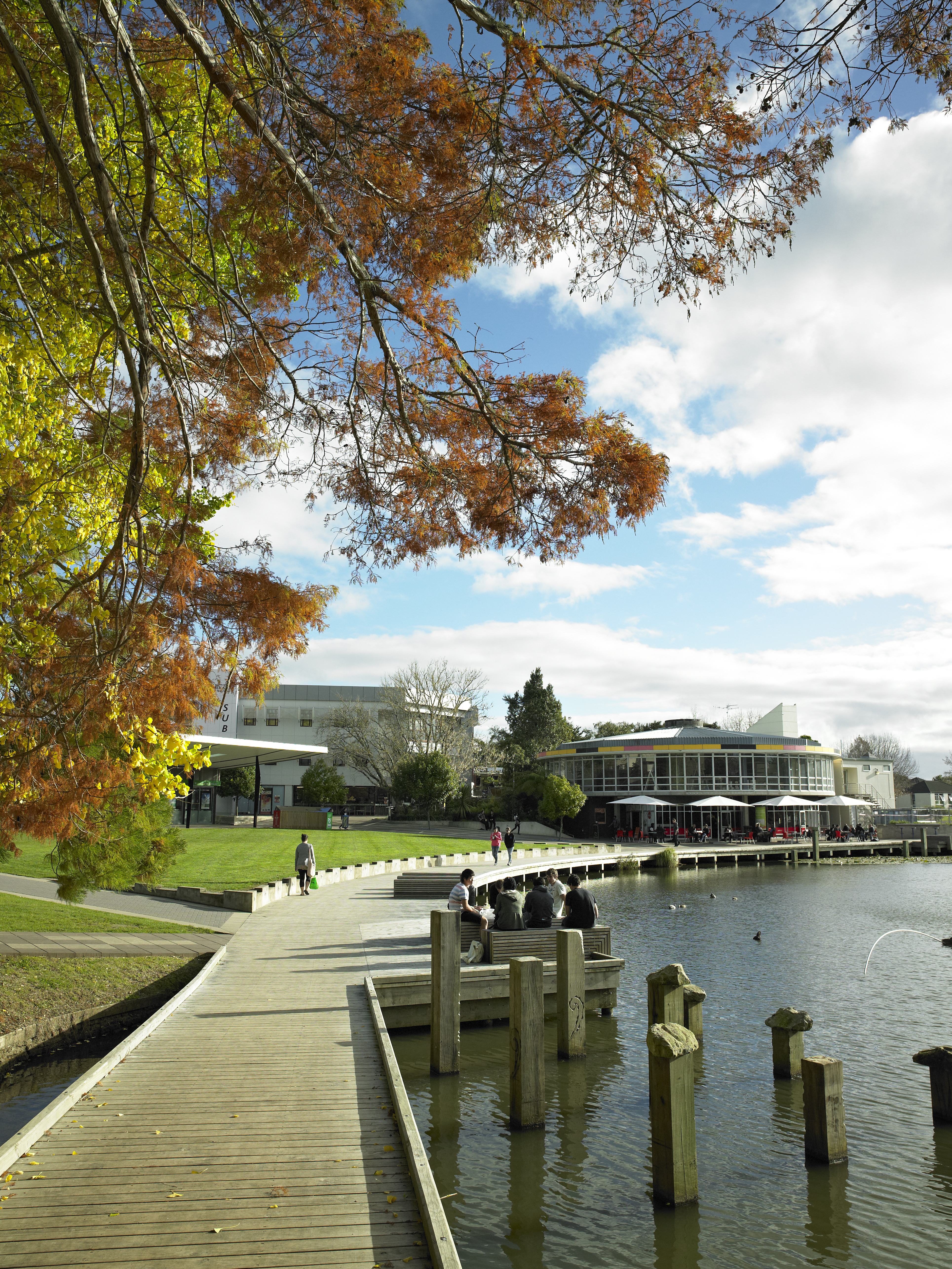 The University of Waikato has three shallow lakes that were created by draining marshy paddocks.